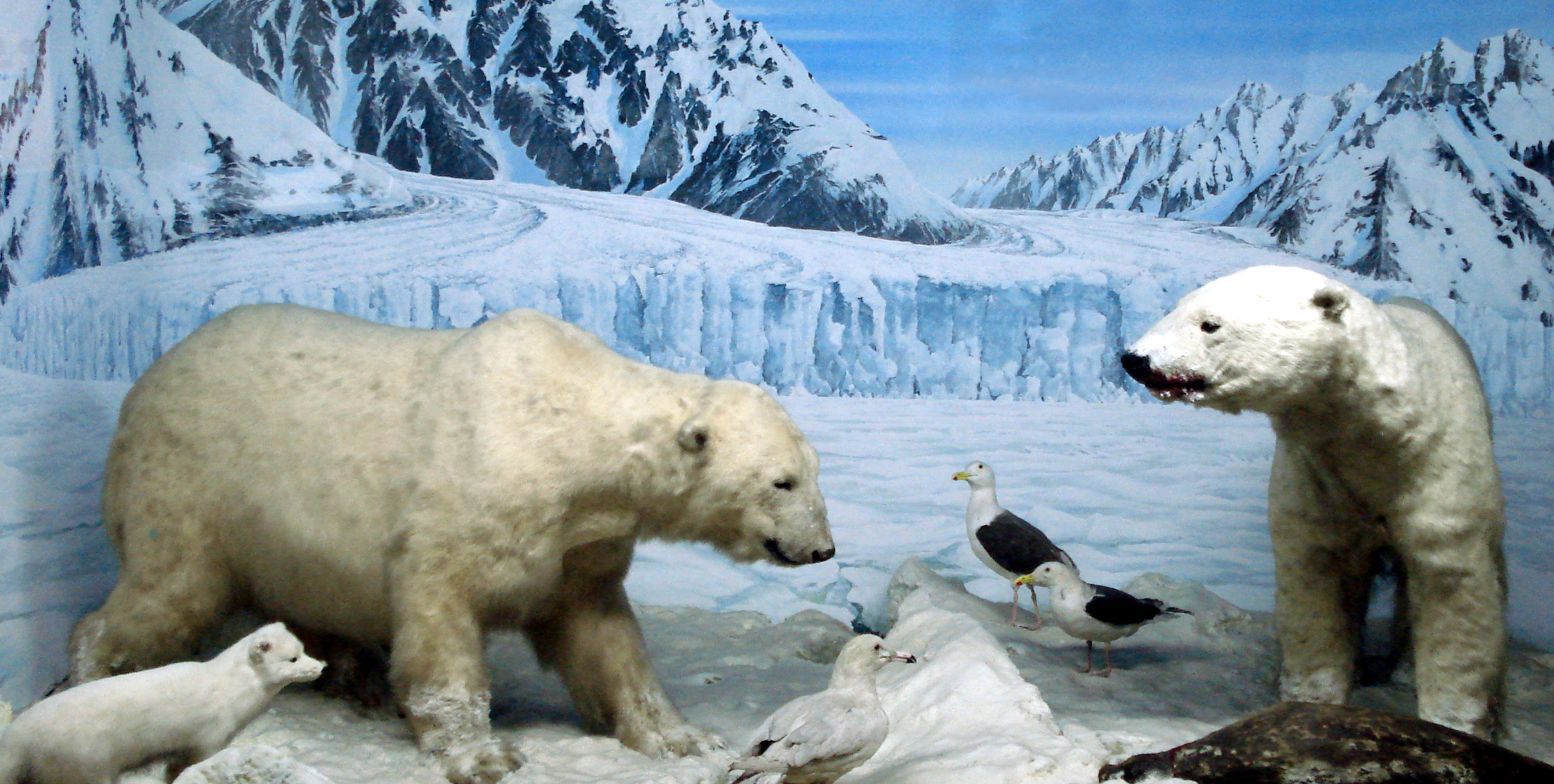 The Natural history museum in Milan, Italy. Diorama about Greenland polar bears. Picture by Giovanni Dall'Orto, december 20 2006.